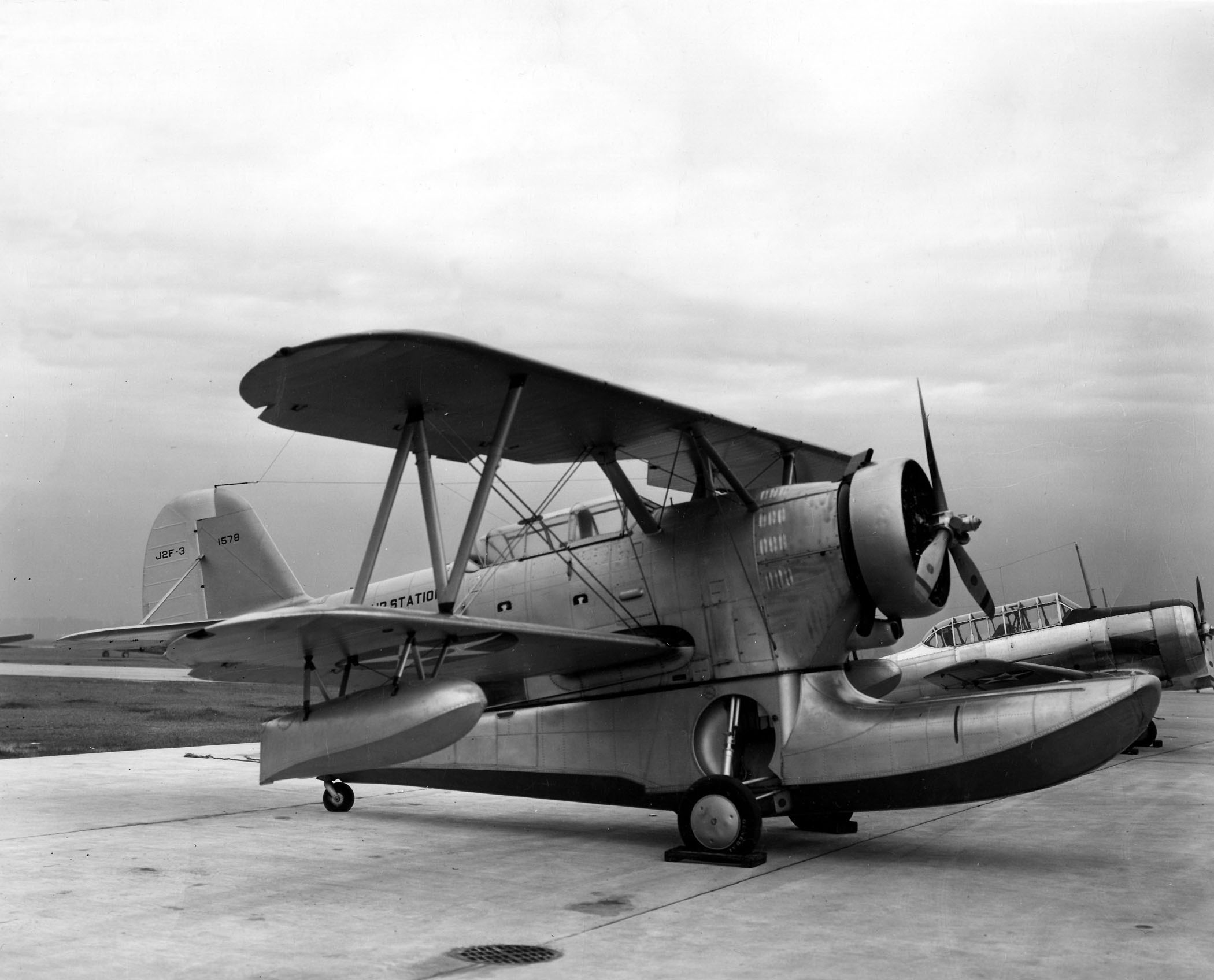 The first aircraft assigned to Naval Air Station Jacksonville, Florida (USA), was this Grumman J2F-3 Duck (BuNo 1578), which arrived on 16 January 1940. This aircraft would remain as the Commanding Officer's plane. A North American SNJ Texan is visible behind the Duck.